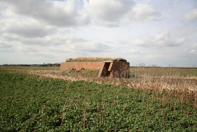 Wartime building. A building associated with RAF Bardney, a Lancaster Bomber base during the war